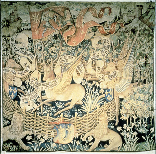 Tapestry of the winged deers from the Musée départemental des Antiquités de Rouen